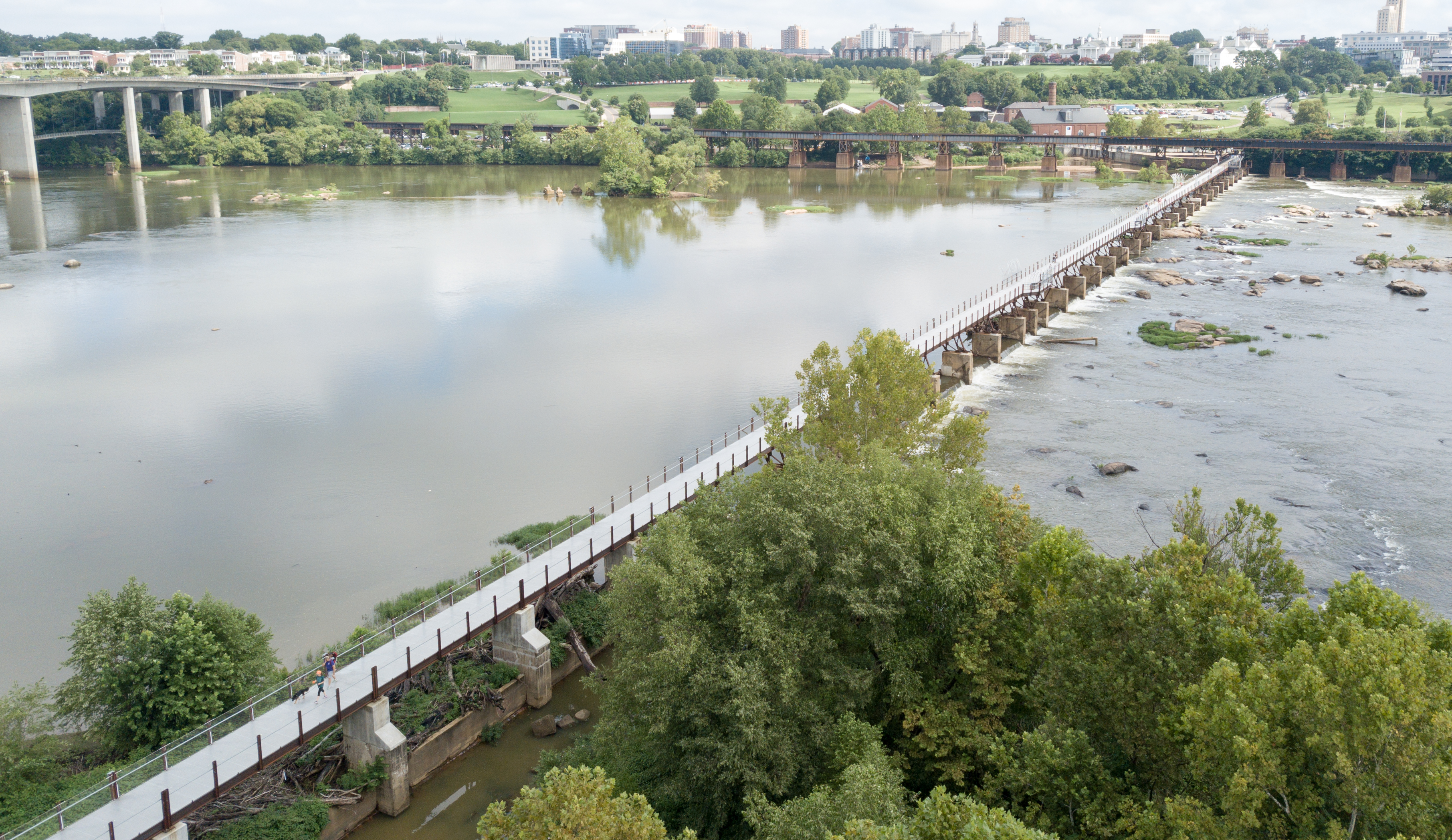 View of Tyler Potterfield Bridge, taken from drone, July 2018, by Nicholas Seitz